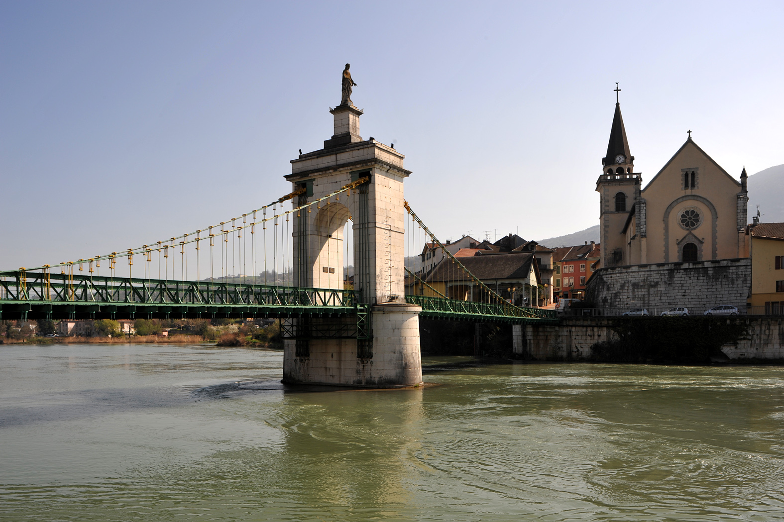 Vierge noire bridge in Seyssel; Haute-Savoie, France.